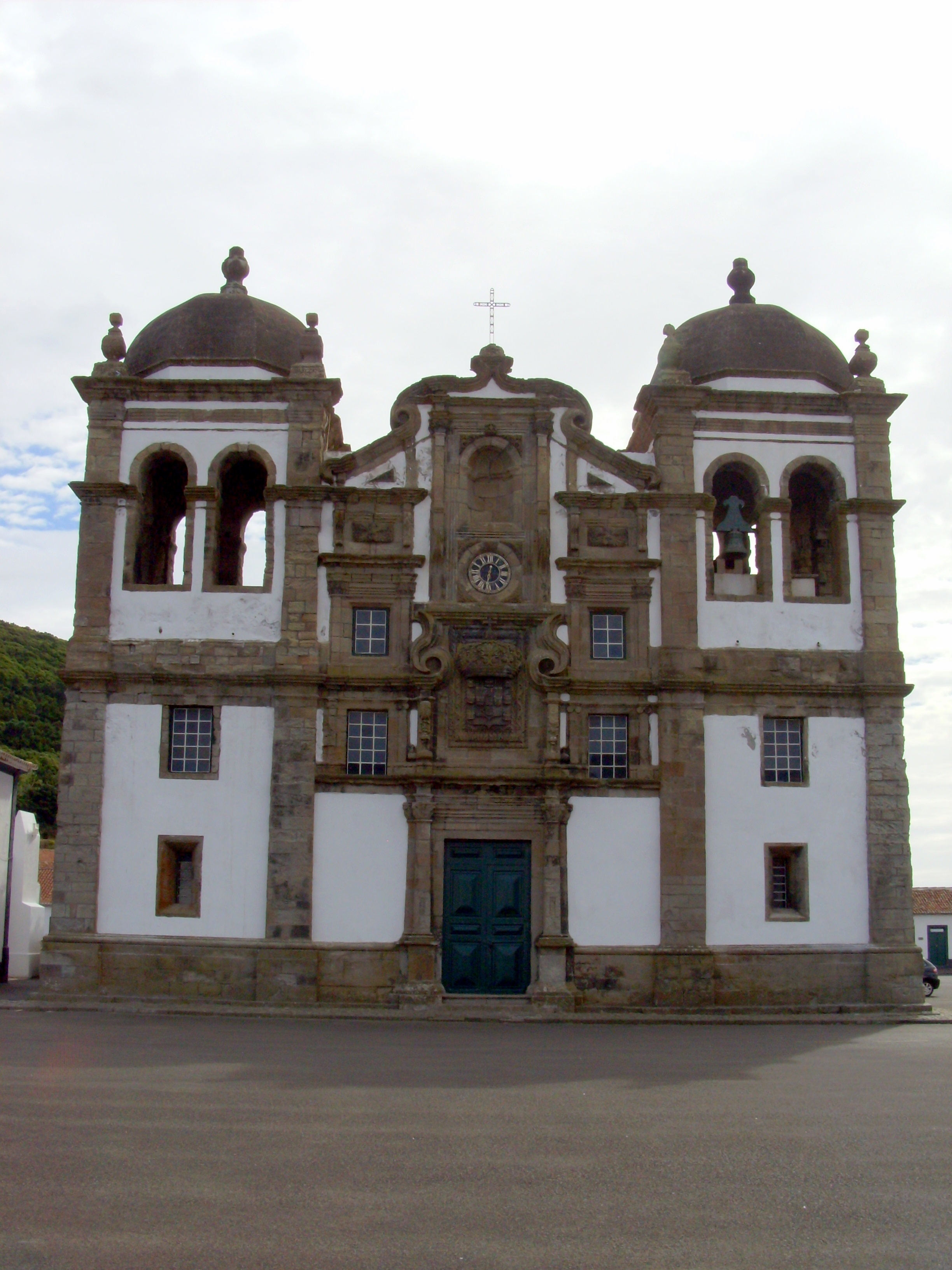 Fortress os São João Baptista do Monte Brasil, Angra do Heroísmo, Terceira island, Azores: Church of São João Baptista (1645).